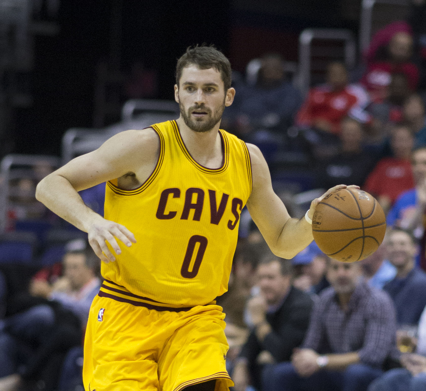 Kevin Love of the Cleveland Cavaliers in a game against the Washington Wizards at Verizon Center on November 21, 2014 in Washington, DC.